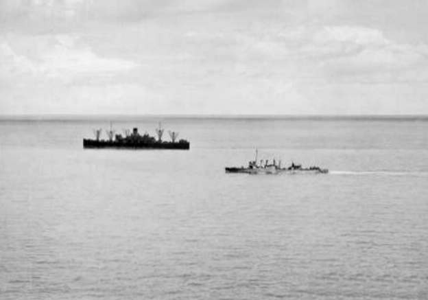 The U.S. Navy destroyer USS Edsall (DD-219) escorting the transport USAT Willard A. Holbrook. In February 1942, Edsall was operating off Java, Netherlands East Indies.